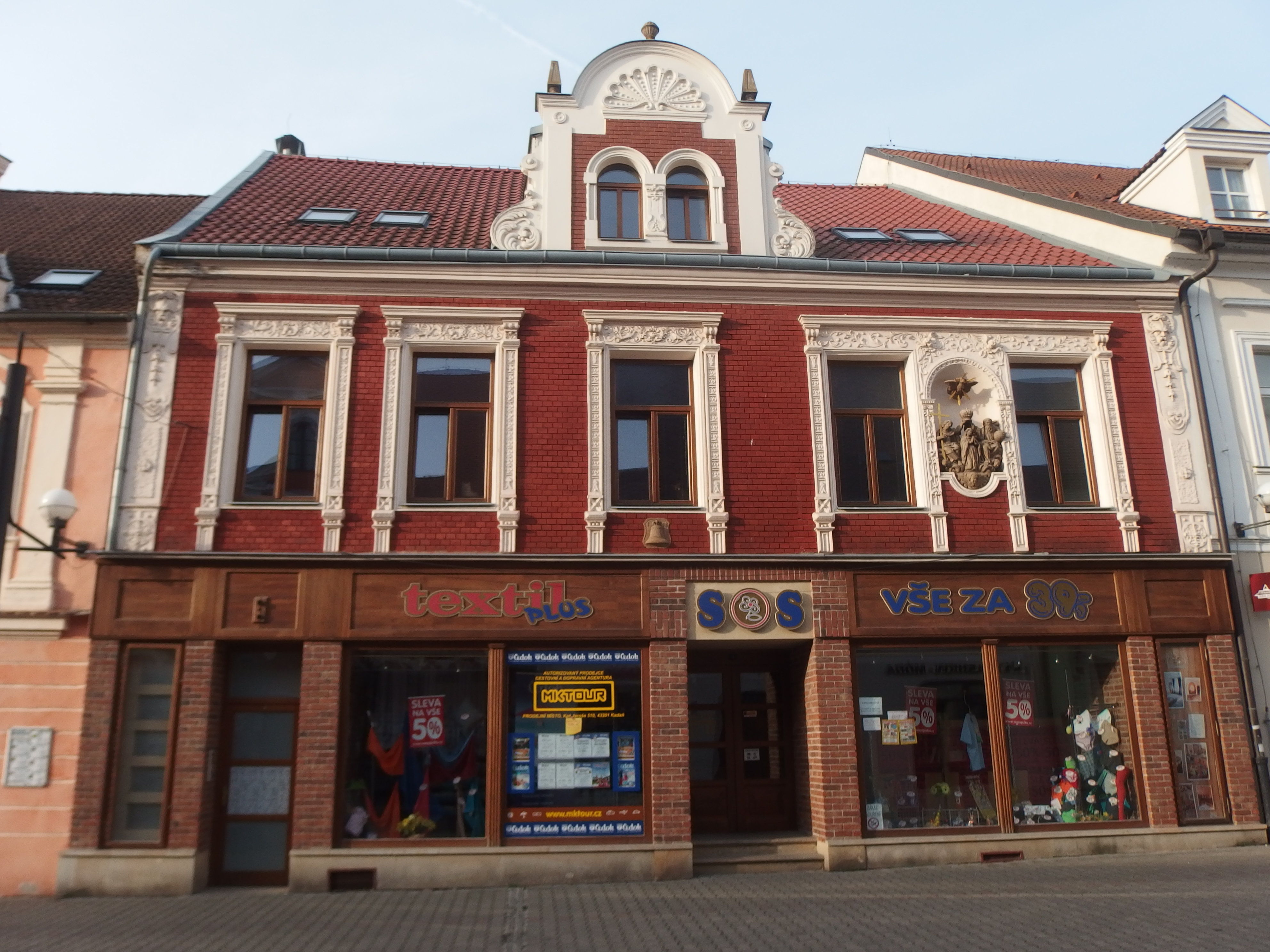 Kadaň, Chomutov District, Czech Republic. Jana Švermy street.